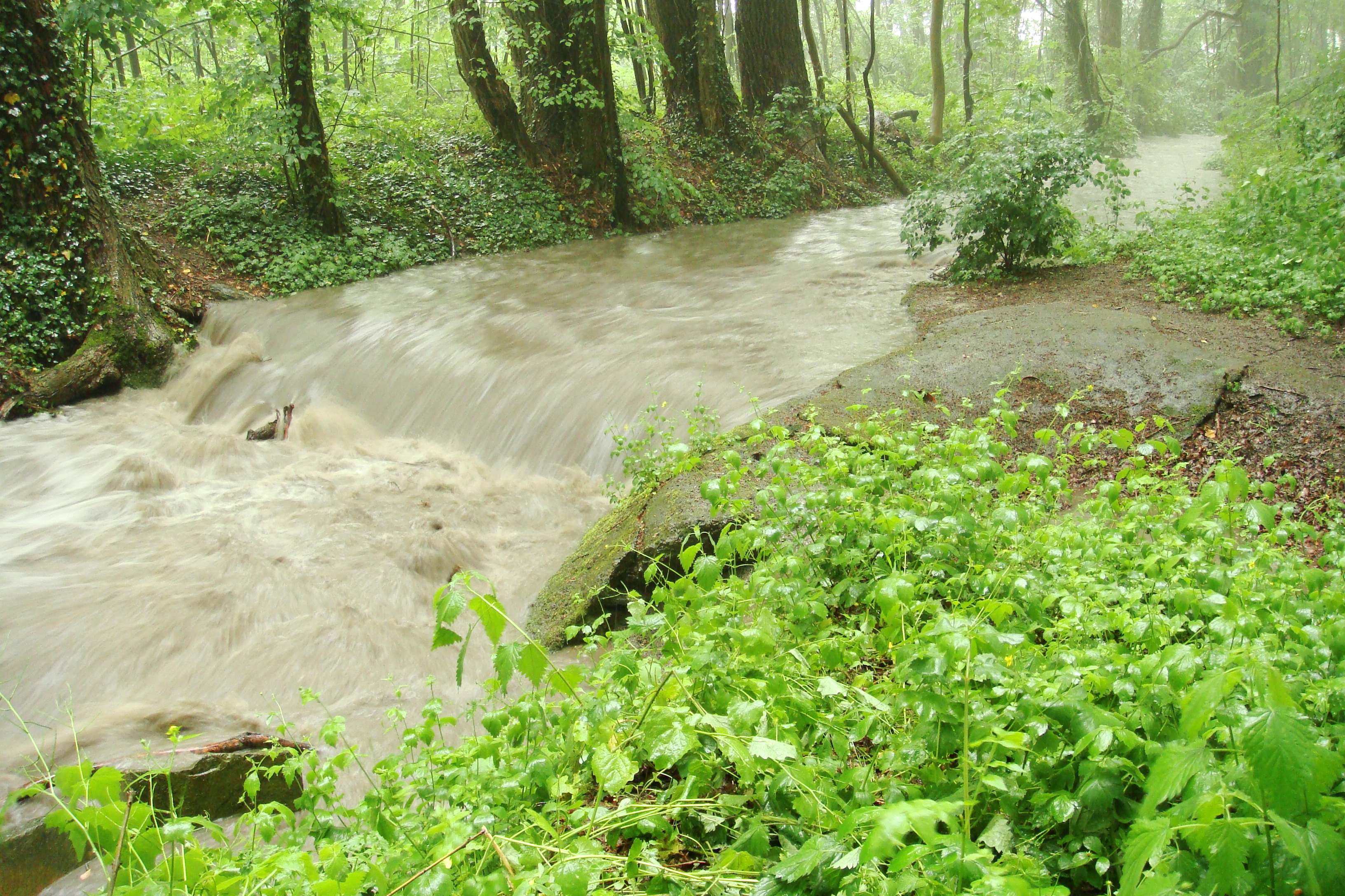 River Schledde at Stadtpark, Soest. The dam is part of the southern section of the river, that is falling dry during summer exept heavy rain is falling and the earth can't absorb all that water. Second photo in a row of three, showing the condition during the mid sized thunder storm at 2016-05-30.